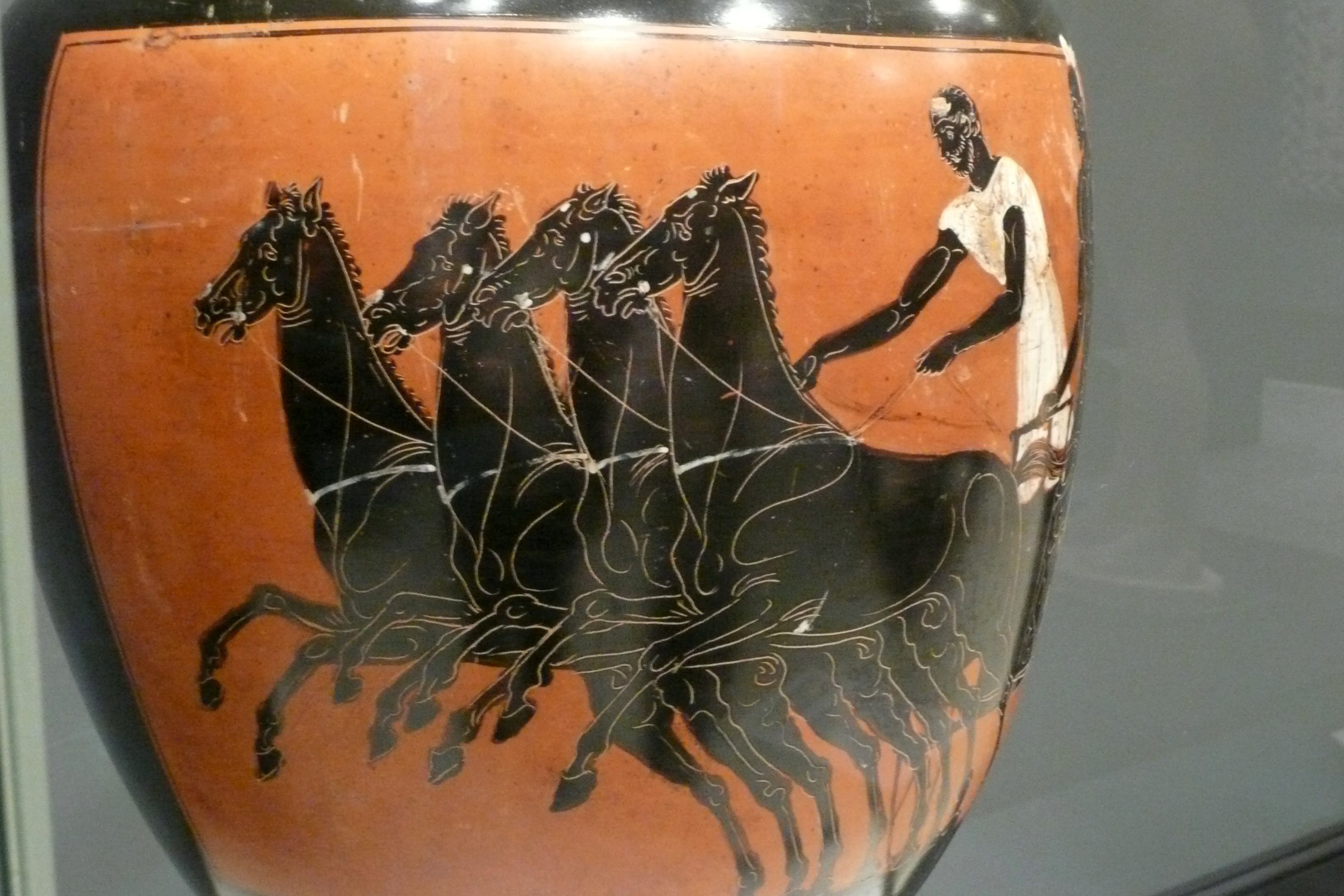 Prize Vessel from the Panathenaic Games (Greek, Athens, 340-339 BC.) - detail. In the Apobates race, the warrior would jump off, run alongside the chariot, then jump back on.